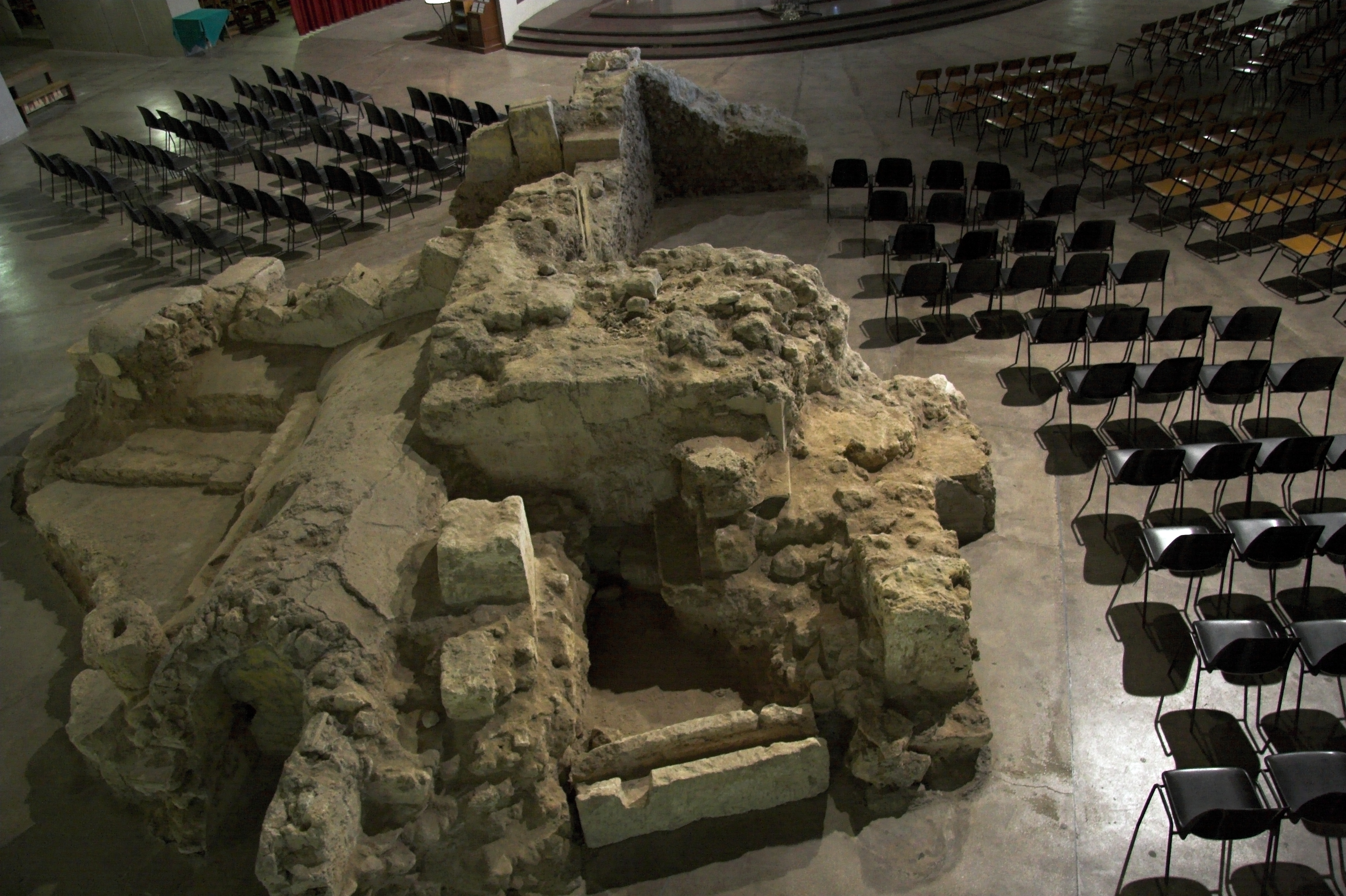 Ancient sanctuary, probably of Demeter, maybe of Roman Age, inside church of the Our Lady tears exuding (Madonna delle Lacrime). Syracuse, Sicily. Sicilian goddesses shedding tears of every epoch, see Empedocles B 6ː "... Netis that her tears live sources."